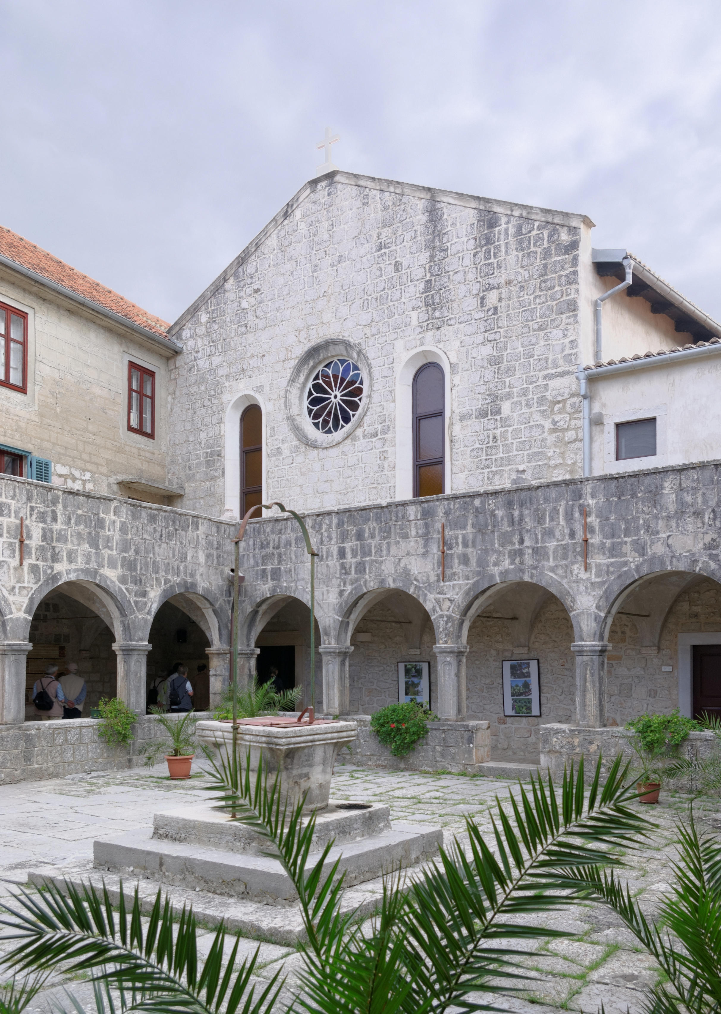 Croatia, Košljun, cloister of the monastry